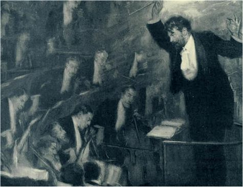 Painting of Sir Henry J. Wood by Cyrus Cuneo (1879–1916), Illustrated London News, 8 February 1908, p. 204